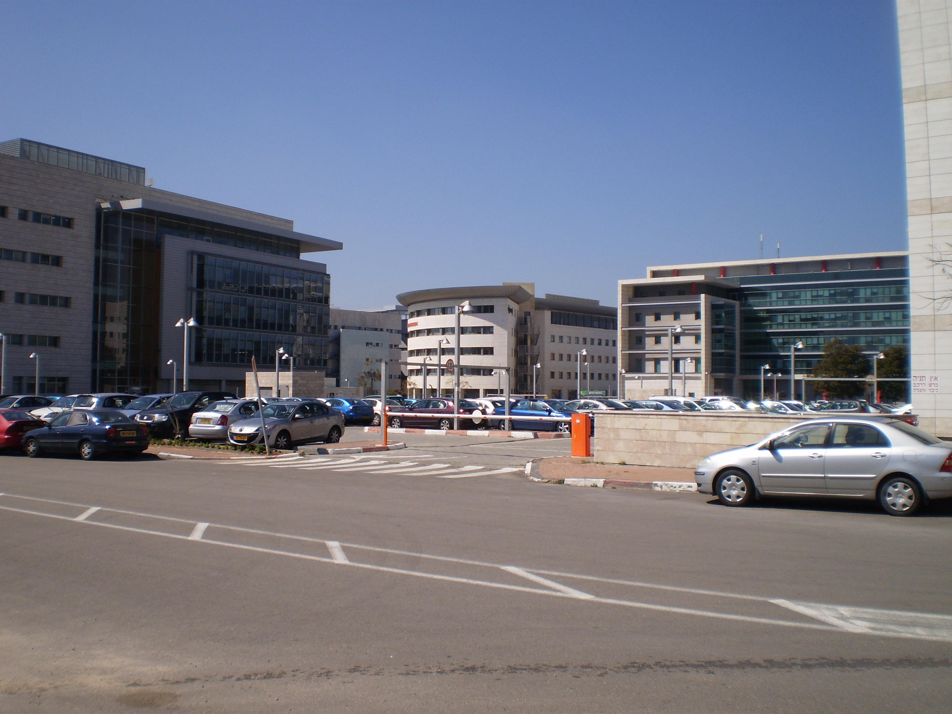 Offices at Airport City, Israel